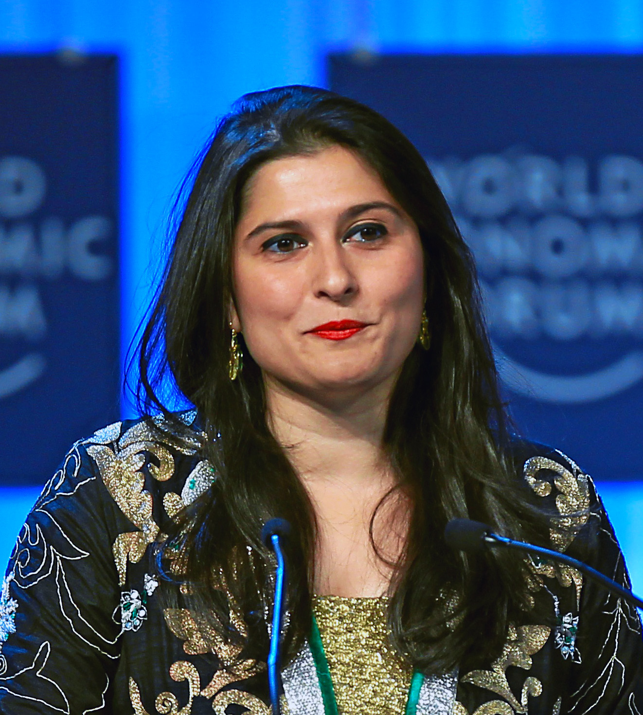 Sharmeen Obaid Chinoy, Documentary Filmmaker, SOC Films, Pakistan talks during the Crystal Award Ceremony Exploring Arts in Society' at the Annual Meeting 2013 of the World Economic Forum in Davos, Switzerland.